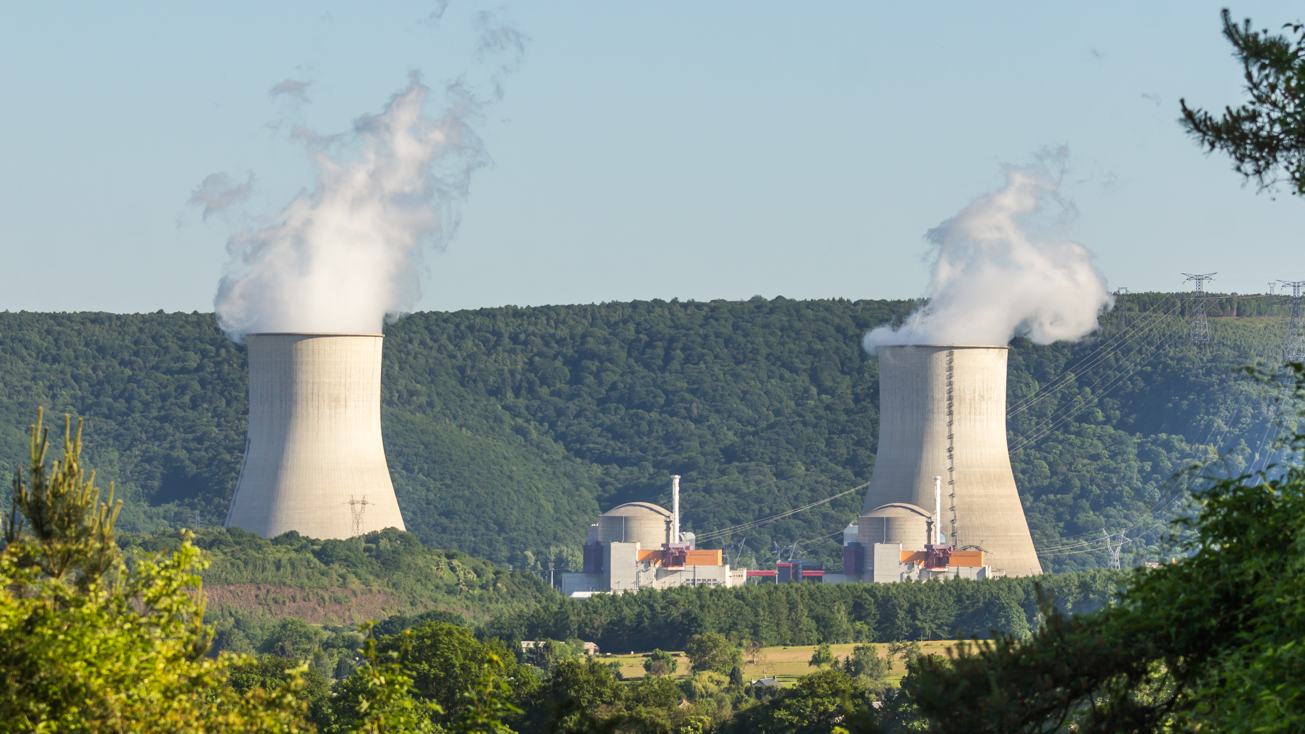 Chooz Nuclear Power Plant. View from Foisches